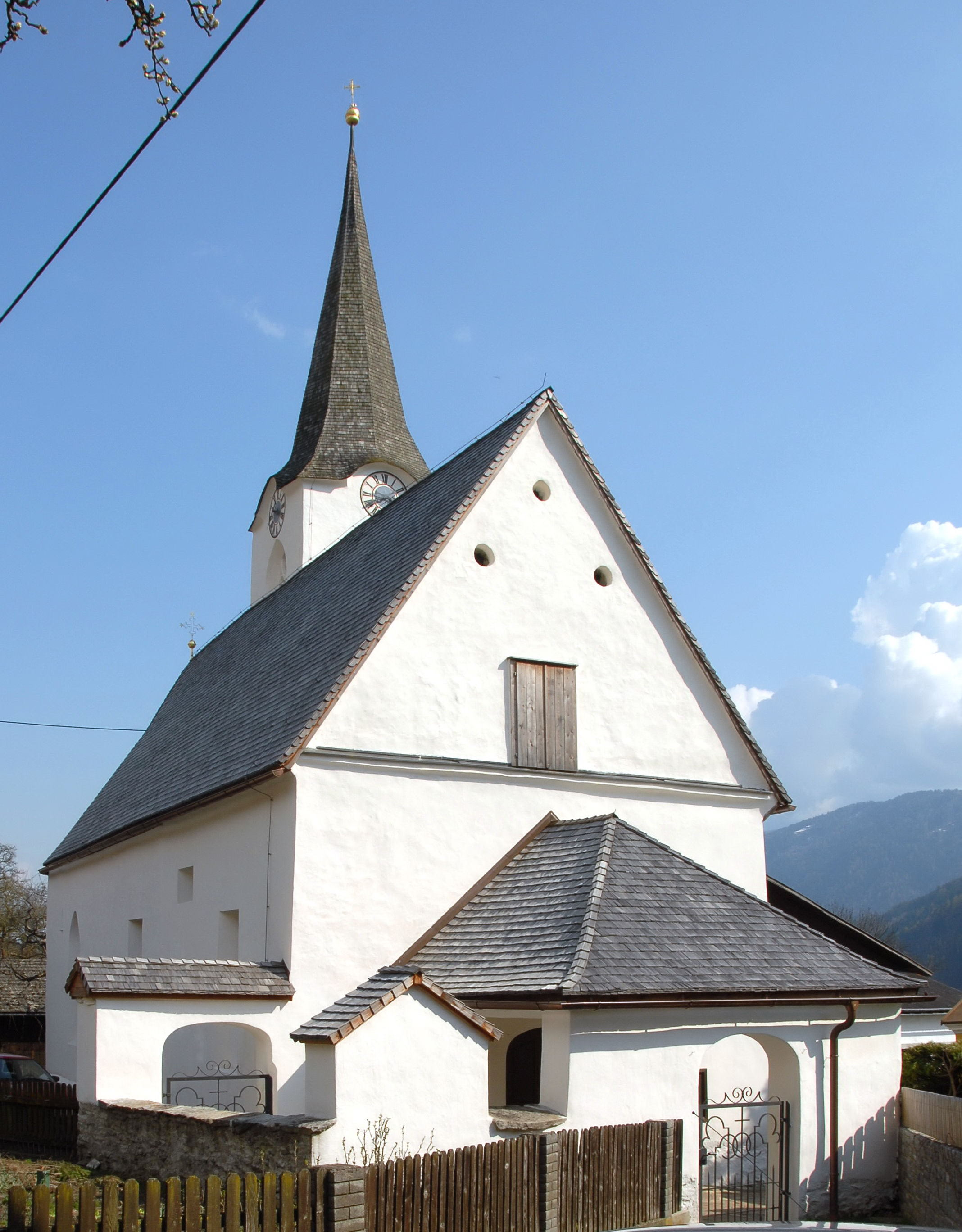 Parish church Saint Vitus at Muehldorf, community in the district of Spittal by the Drau, Carinthia, Austria